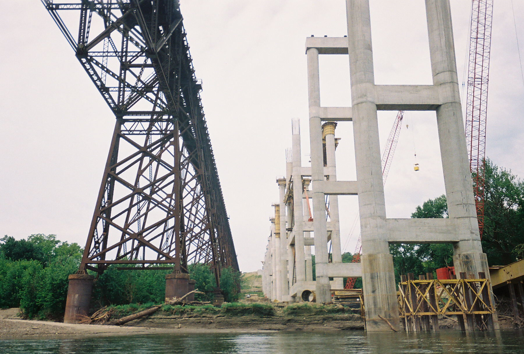 Kate Shelley High Bridge, currently owned by Union Pacific Railroad. The original steel trestle Boone Viaduct, a.k.a. Kate Shelley High Bridge, is on the left (south); the new officially named Kate Shelley High Bridge with reinforced concrete trestles is on the right (north). Photograph captured 08/05/08 by Mark Pospisil near Boone, Iowa using a disposable waterproof Kodak 400 speed camera.